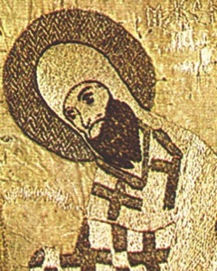 Maksim, Metropolitan of Kiev